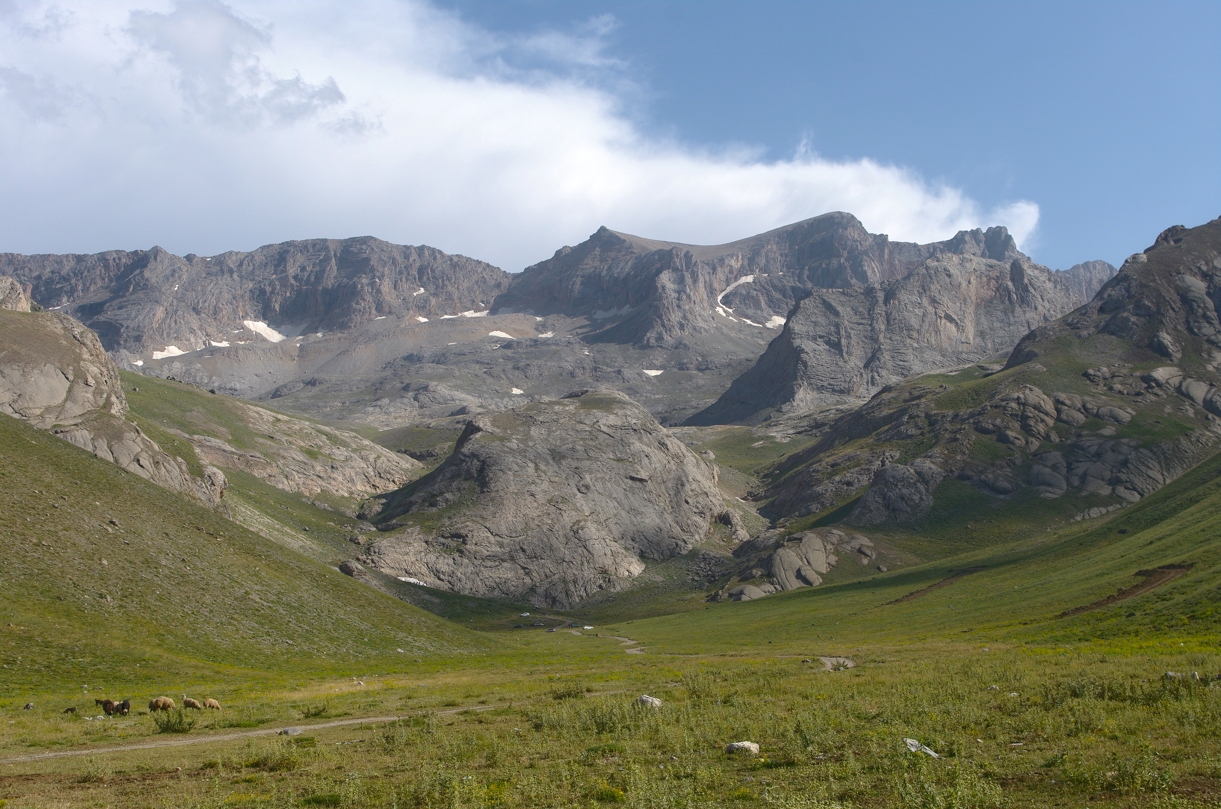 A view of Bolkar Mountains from the Plataeu Meydan.